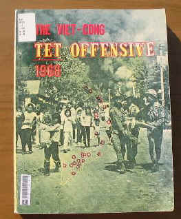 The Viet Cong Tet Offensive 1968 book cover.